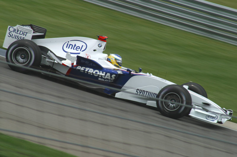 Nick Heidfeld driving for BMW Sauber at the 2006 United States Grand Prix.